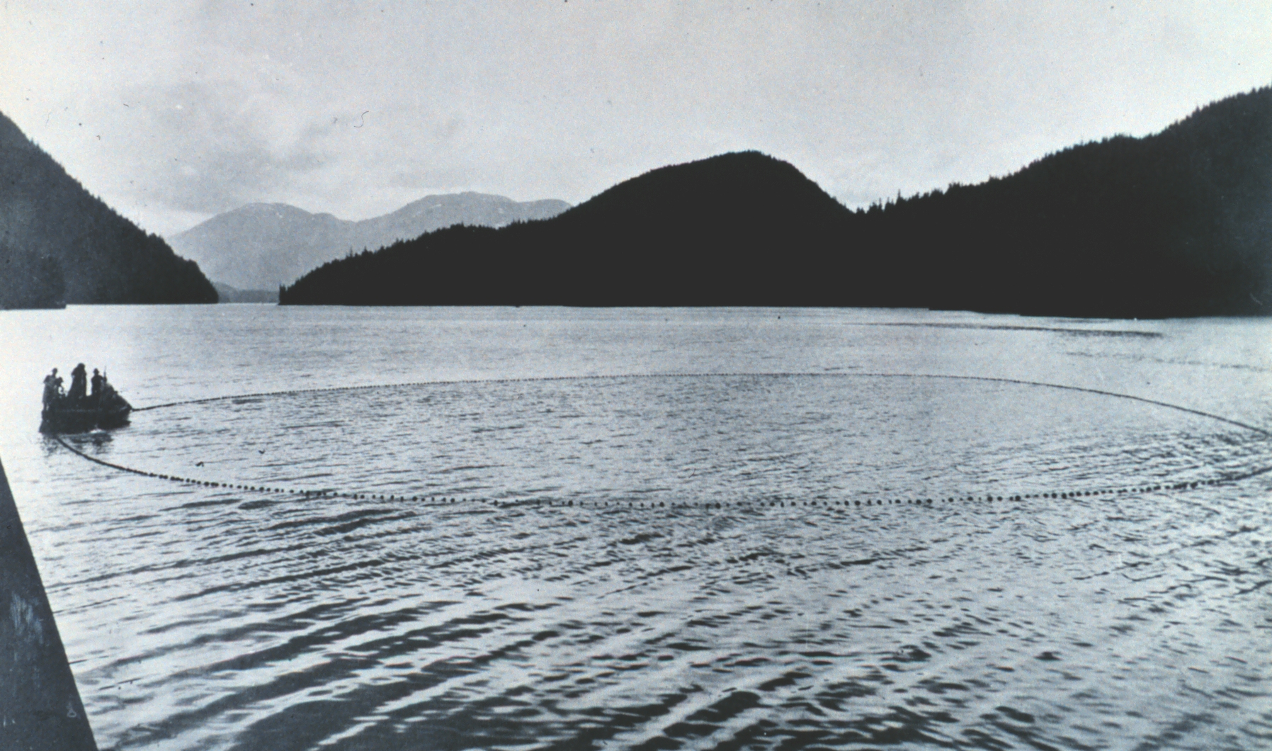 Purse seining. Salmon swimming near the surface are surrounded with a wall of netting, which is supported by floats. Lines are then drawn tight in the lower surface of the net to "purse" it into a baglike shape. The fish are then bailed out of the net. Location: Southeast Alaska Photo Date: 1938 Ca.